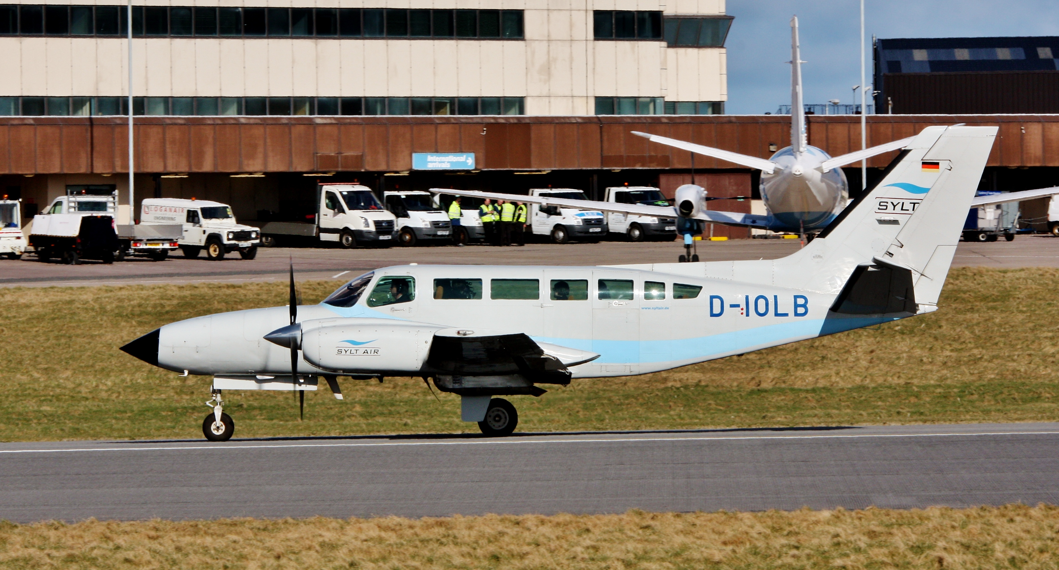 Taxiing in front of Sumburgh Terminal for departure.